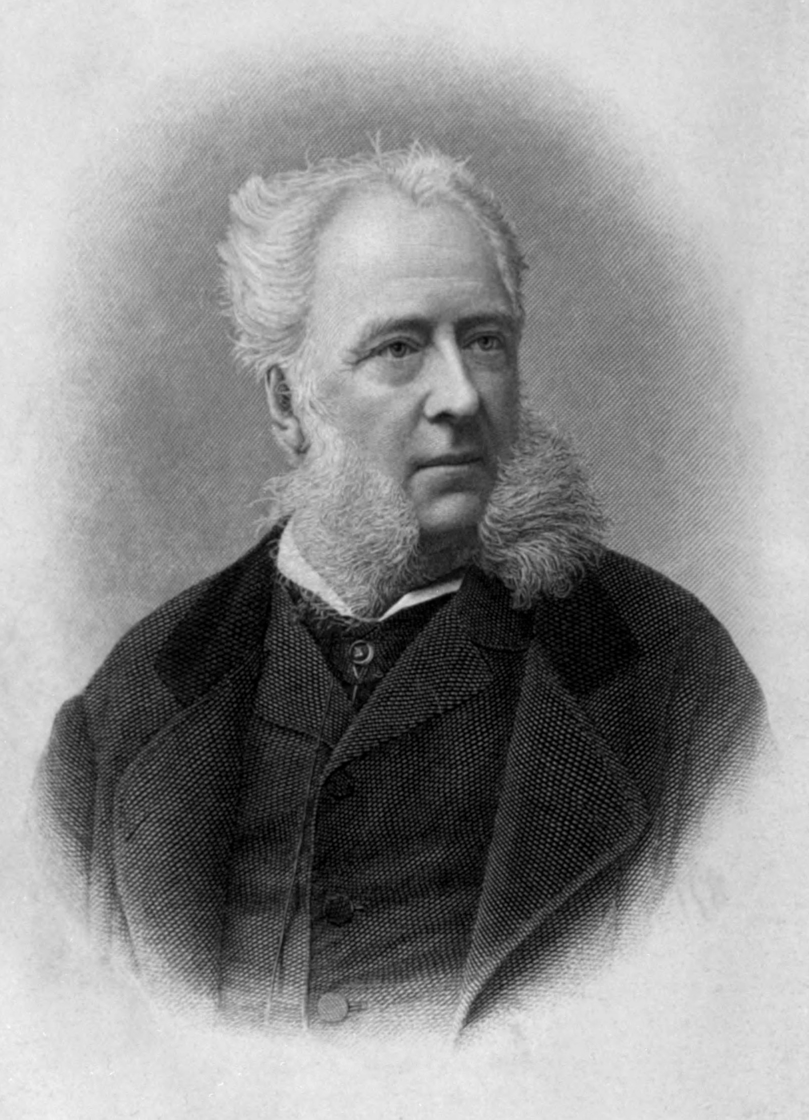 Boleslav Mikhailovich Markevich, Russian novelist, essayist, journalist, and literary critic.